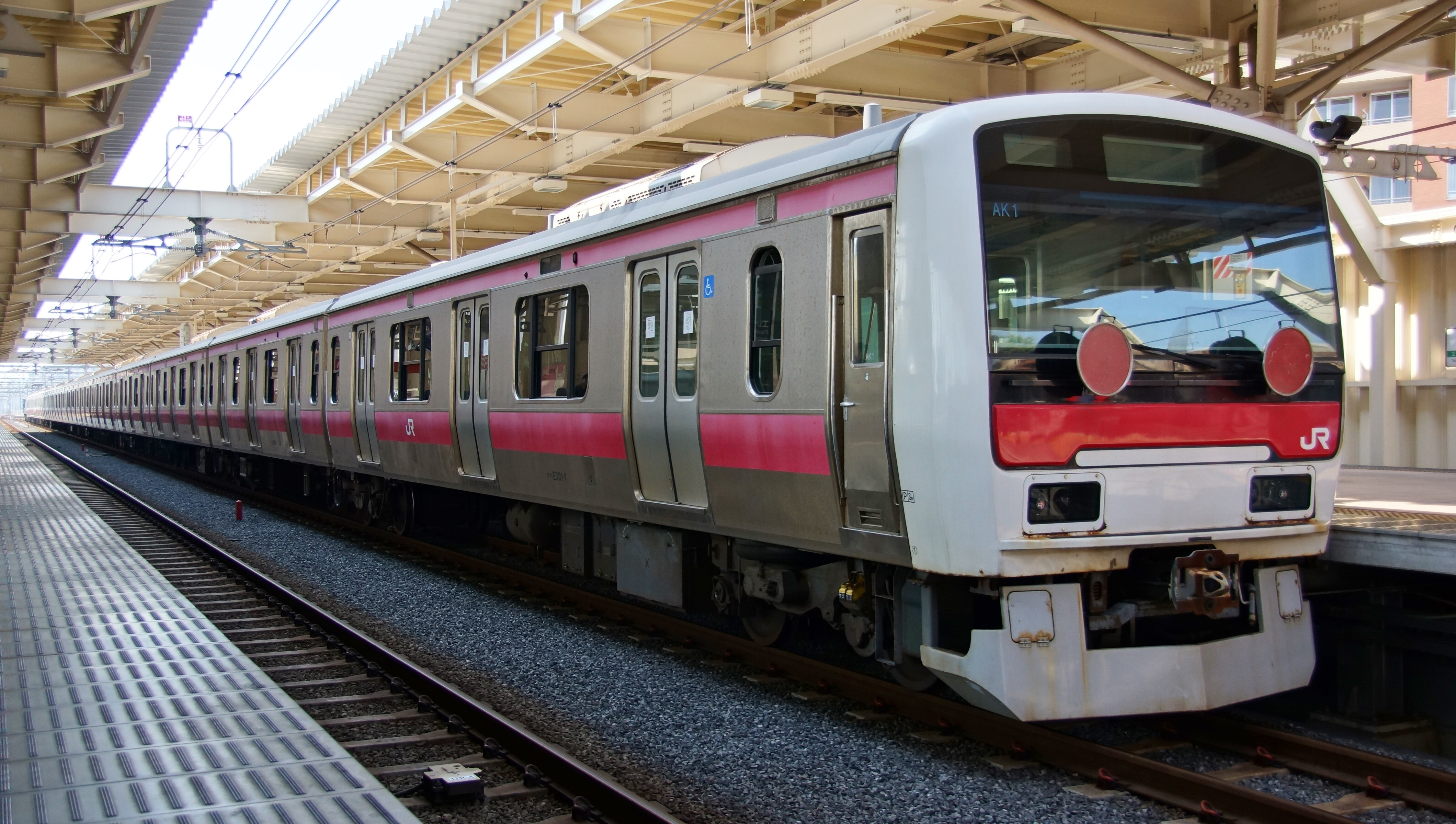 The JR East E331 series EMU set AK1 at Kunitachi Station on the Chuo Main Line, being hauled (by a Class EF64-1000 electric locomotive) to Nagano Works for scrapping